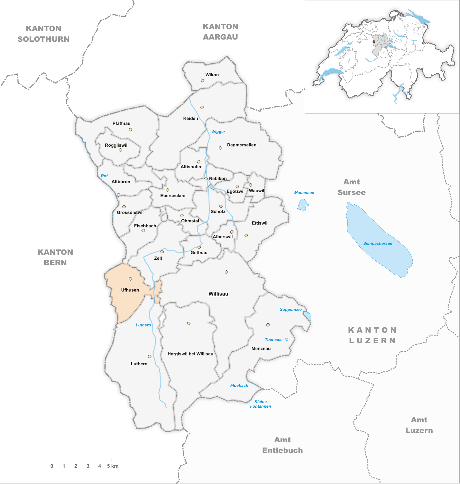 Municipality Ufhusen